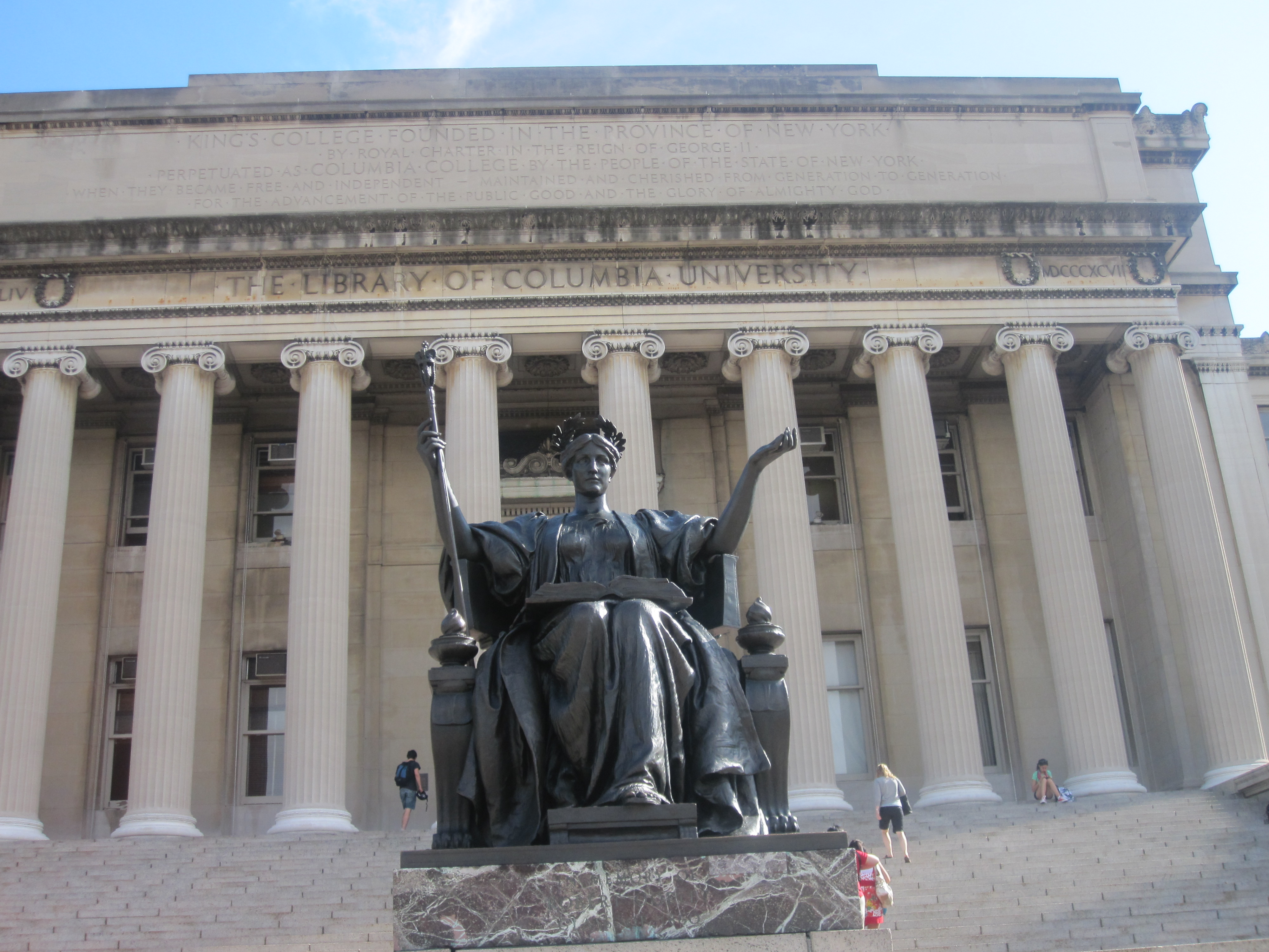 Alma Mater at old library of Columbia University, NYC